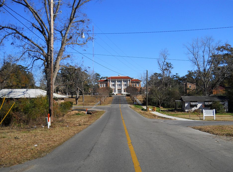 Stone County Courthouse, Wiggins, Mississippi, USA. Photo taken from Cavers Avenue, looking east.